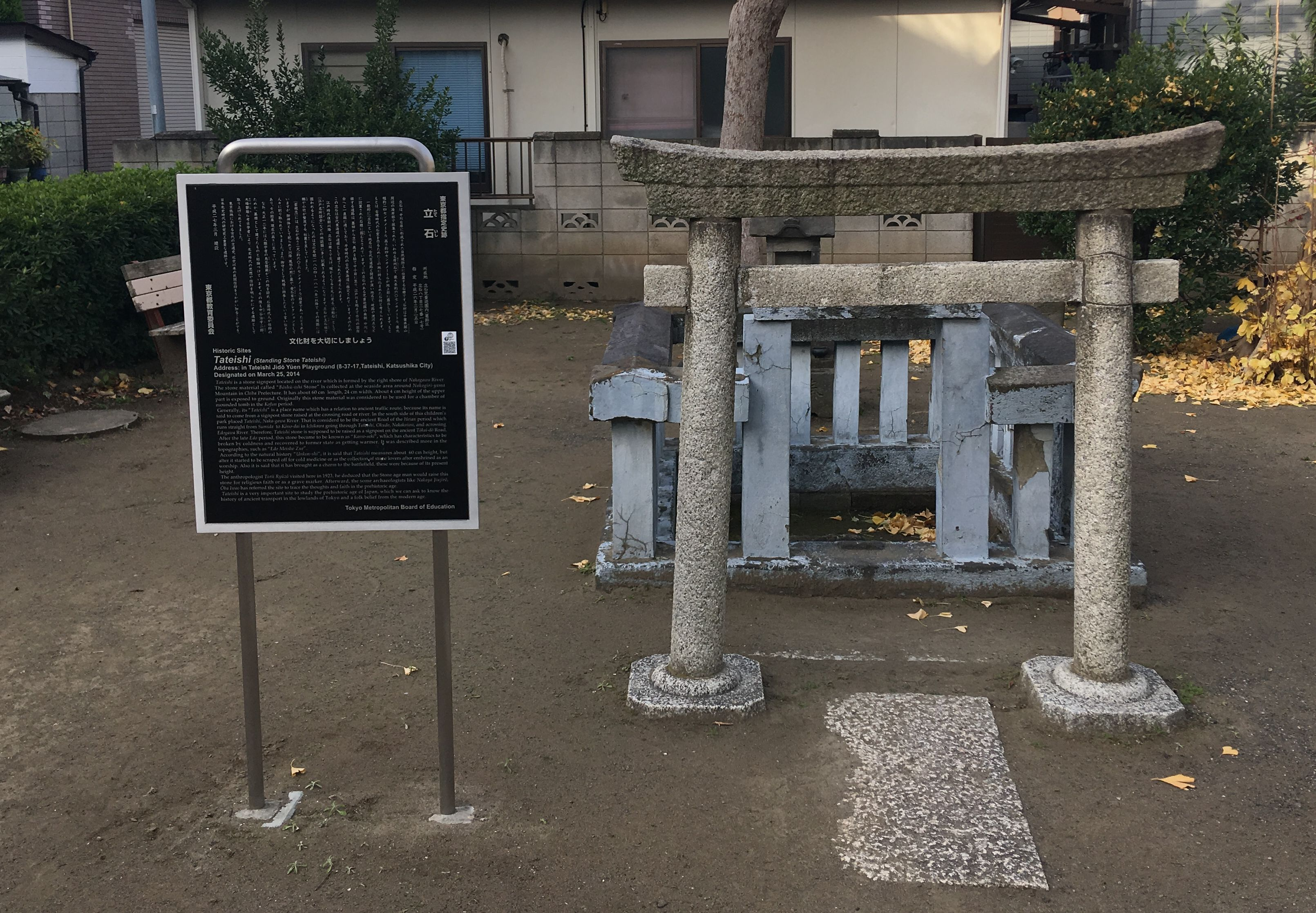 Tateishi-sama in Katsushika Ward, Tokyo, Japan